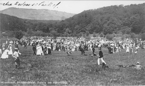 Honterusfest (celebration of Honterus school students) near Brașov, Romania, around 1910